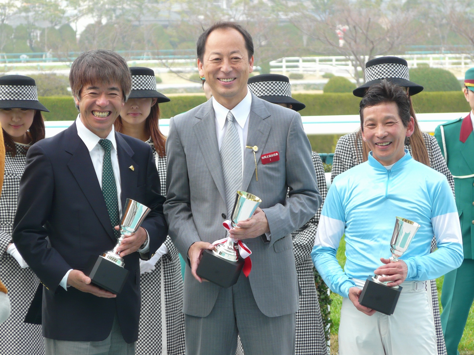 Hidetoshi-Yamamoto20100320